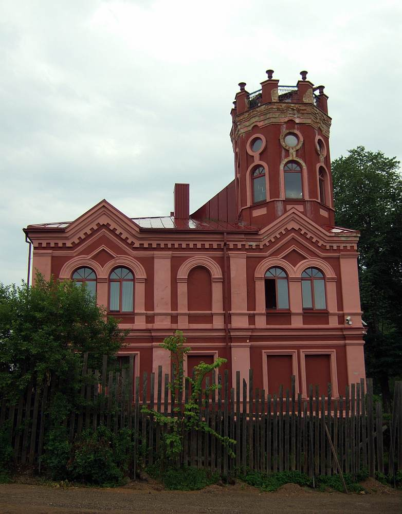 Manor Arvydų-Bezdonių